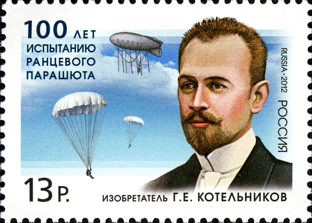 100th Anniversary of Trial of Knapsack Parachute by G.E. Kotelnikov